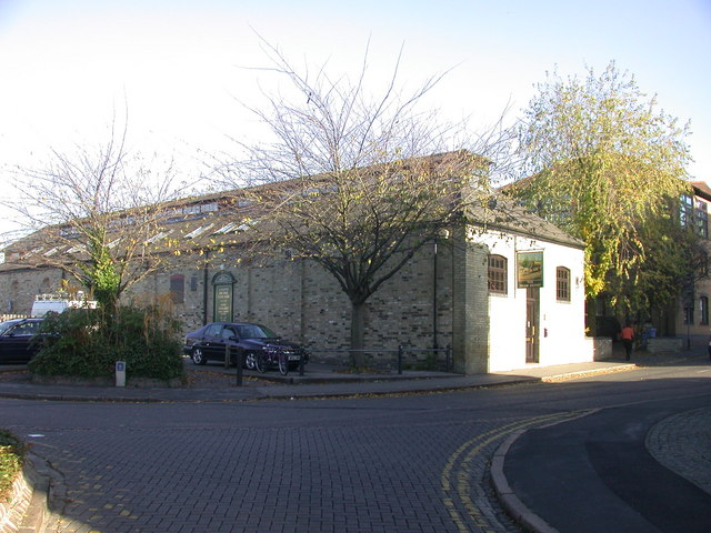 The Tram Depot, Dover Street Just off East Road, this building was indeed once a tram depot, and latterly a furniture depository, before conversion to a pub.